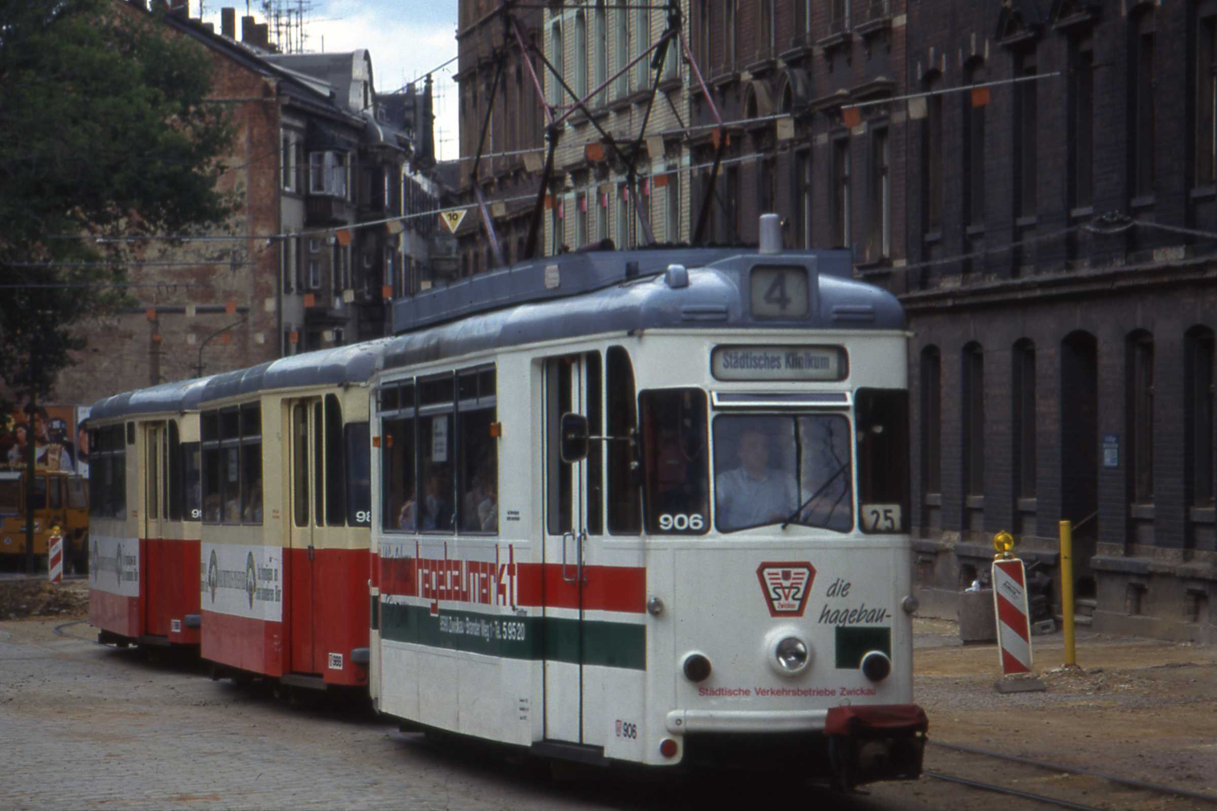 Linie 4 was still operated by three cars sets of Gotha cars in 1993, with motor car and two trailers. Gotha car no 906 leads in the direction of the hospital, bearing overall advertising for Hagebau Markt,,Brander Weg 1, which firm also seems to have gone on-line since this slide. Building work is underway replacing the infrastructure in the city. The middle trailer car looks like no 988. 906, a 1960 Gotha T57 was originally delivered as no. 91, then car 124. Later in 1993 it was again renumbered 956. It remains in service at Bad Schandau as car number 4. (OVPS Pirna) whose other T57s came from Plauen (61/3/73) Later cars 984/995 from Zwickau also went to Bad Schandau.